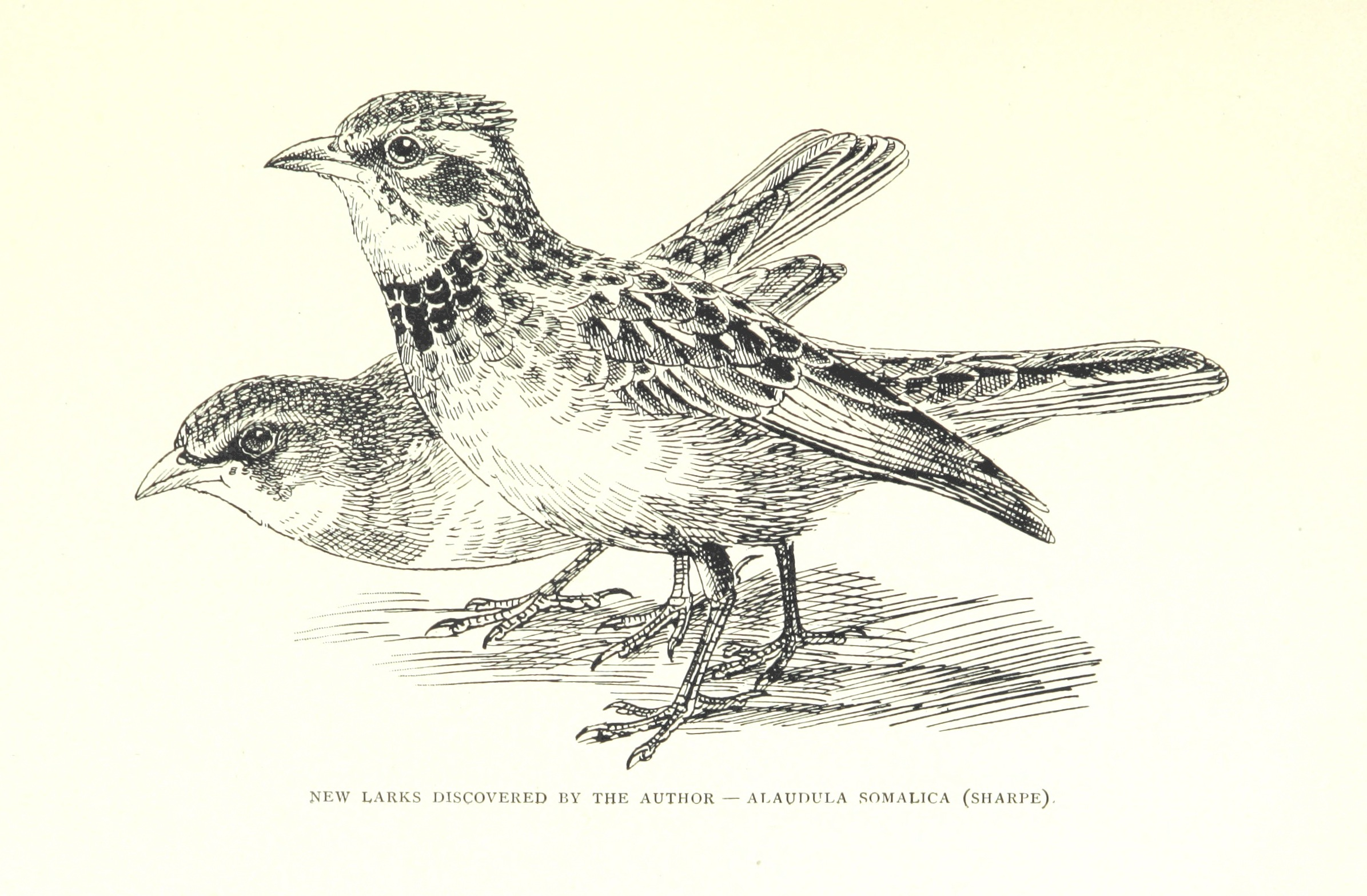 An illustration of the Somali short-toed lark, Calandrella somalica, also called Alaudula somalica. From page 149 of the book "Through Unknown African Countries. The first expedition from Somaliland to Lake Lamu ... Illustrated. [With maps.]"